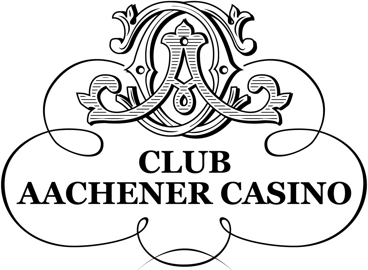 Logo Gentlemen's Club Aachen (Germany)